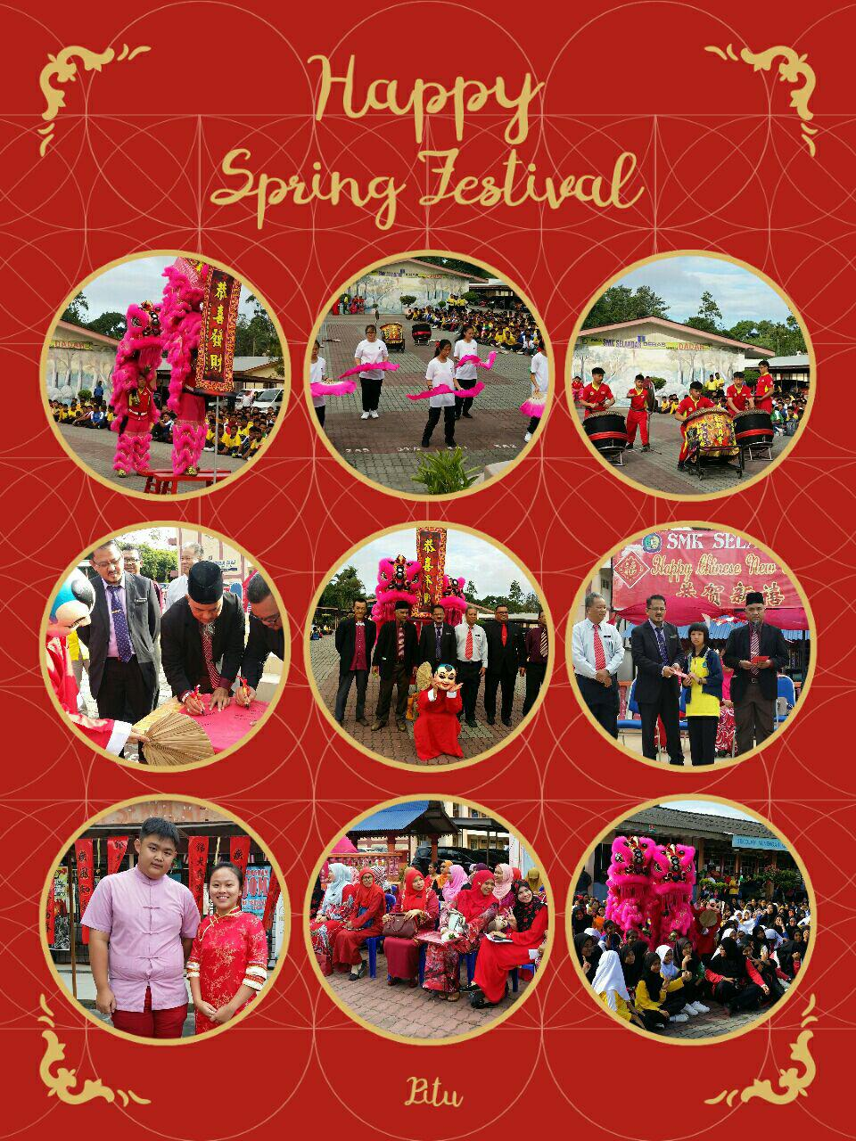 CNY 6